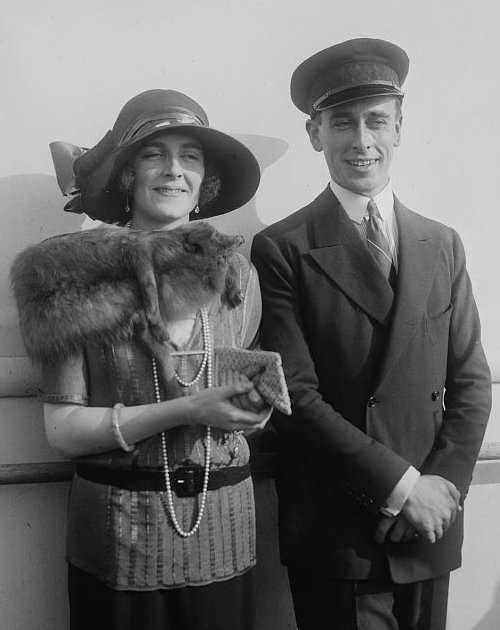 Louis (1900-1979) and Edwina (1900-1960) Mounbatten